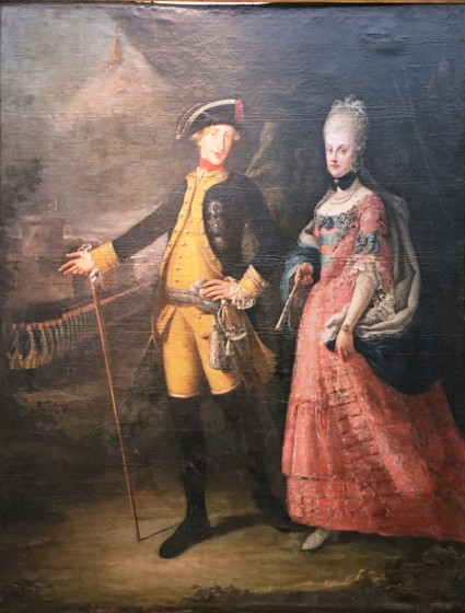 Ferdinand IV and Maria Carolina of Austria, king and queen of Naples